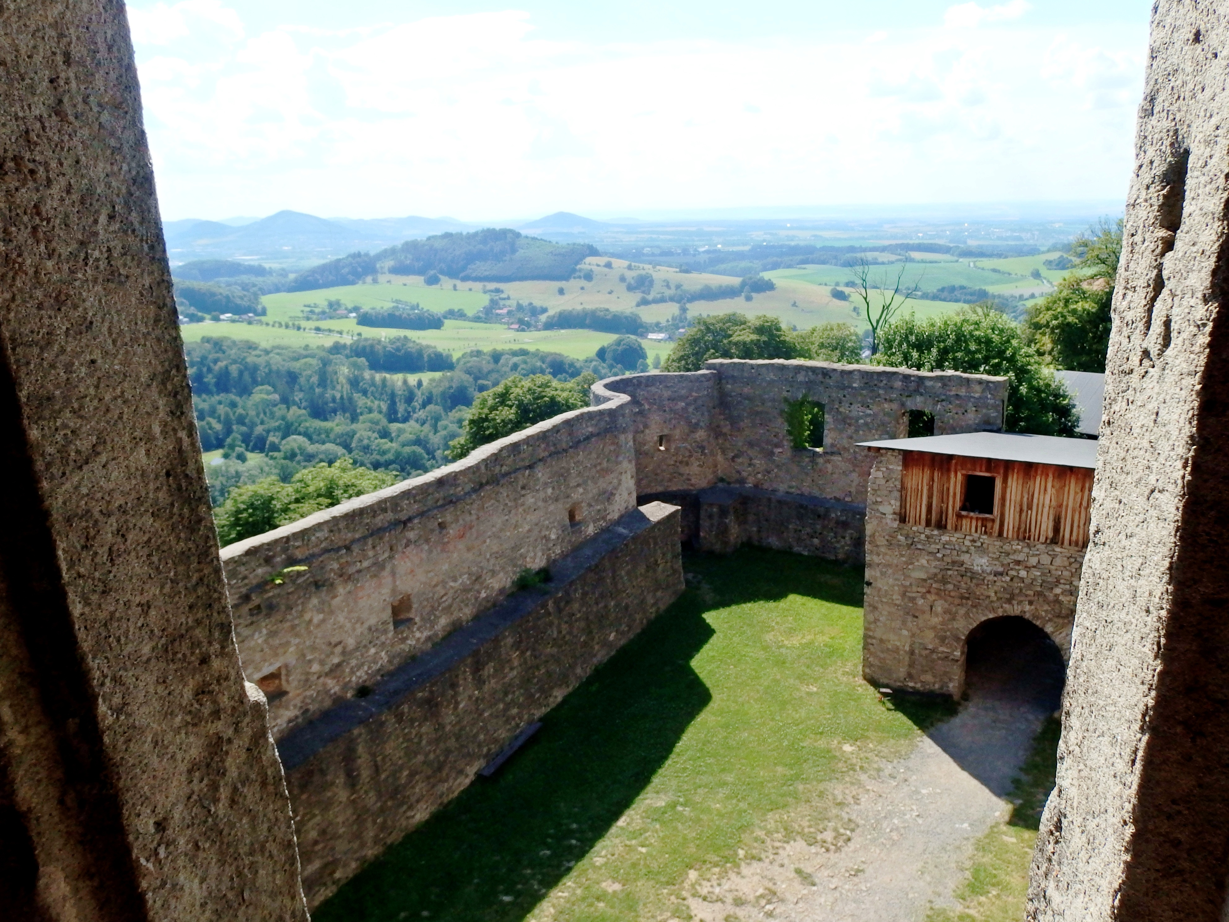 Hukvaldy, Frýdek Místek District, Czech Republic. View from the castle.